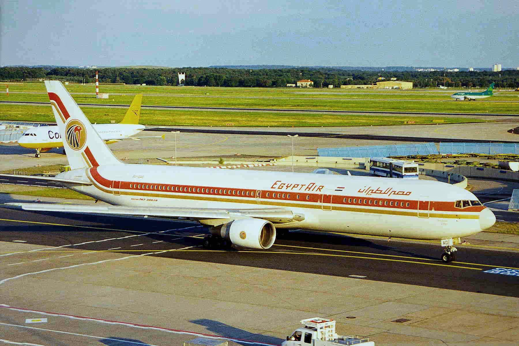 "Ramses II" two months before the crash of sistership SU-GAP.